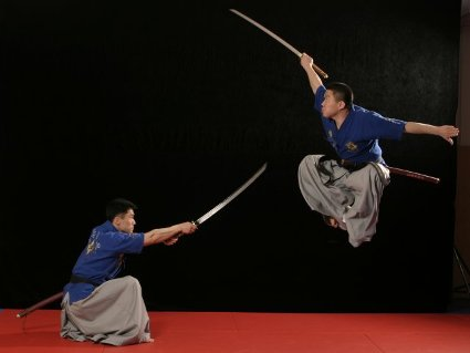 Two practitioners demonstrating acrobatic movements of the Korean sword art Haidong Gumdo